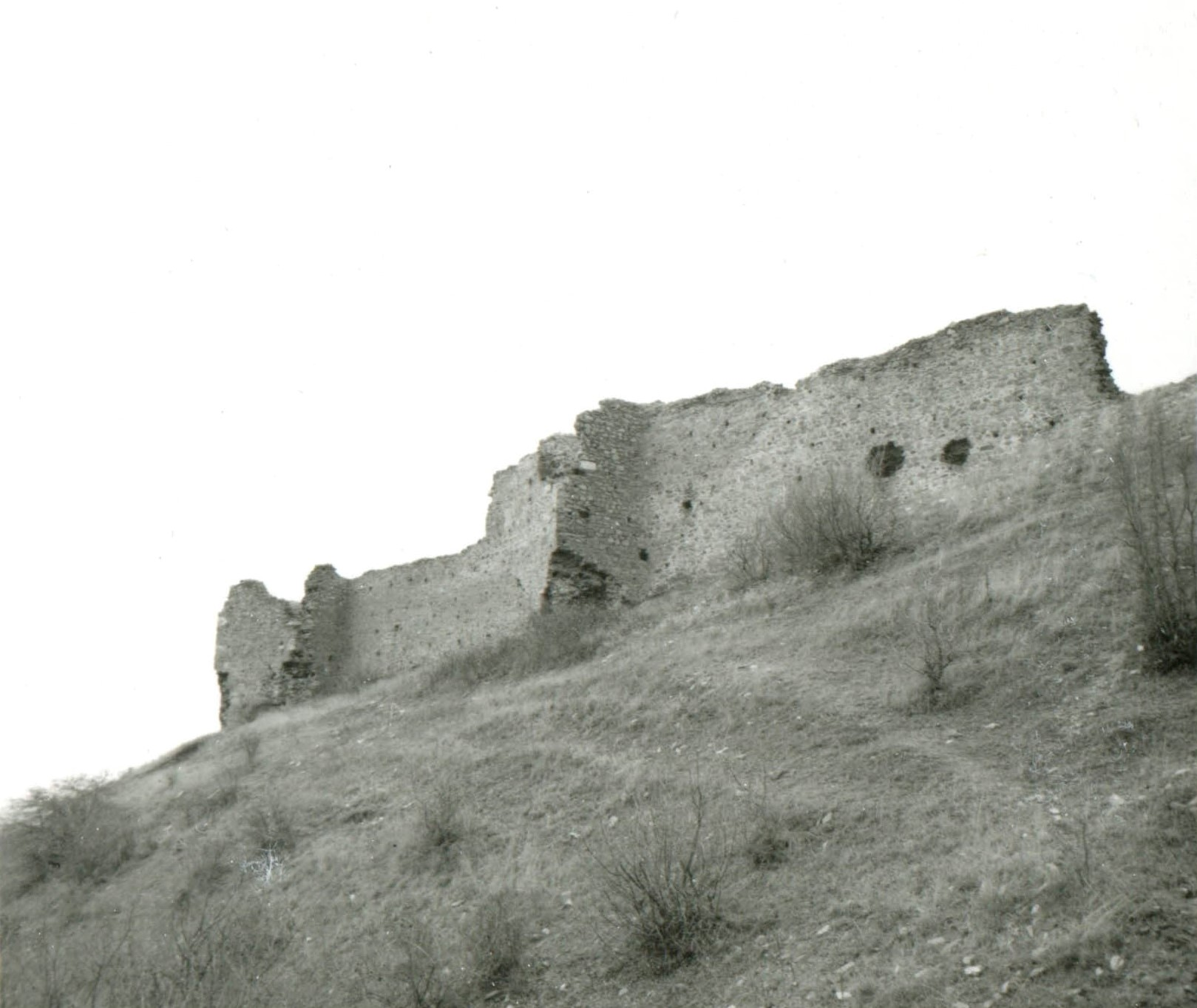 Medieval city Koprijan or Kurvingrad near Doljevac